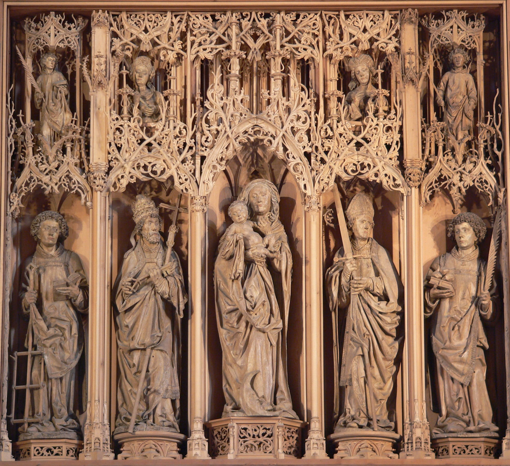 Shrine of the Altar by Hans Seyffer in the Church Kilianskirche of Heilbronn - Germany